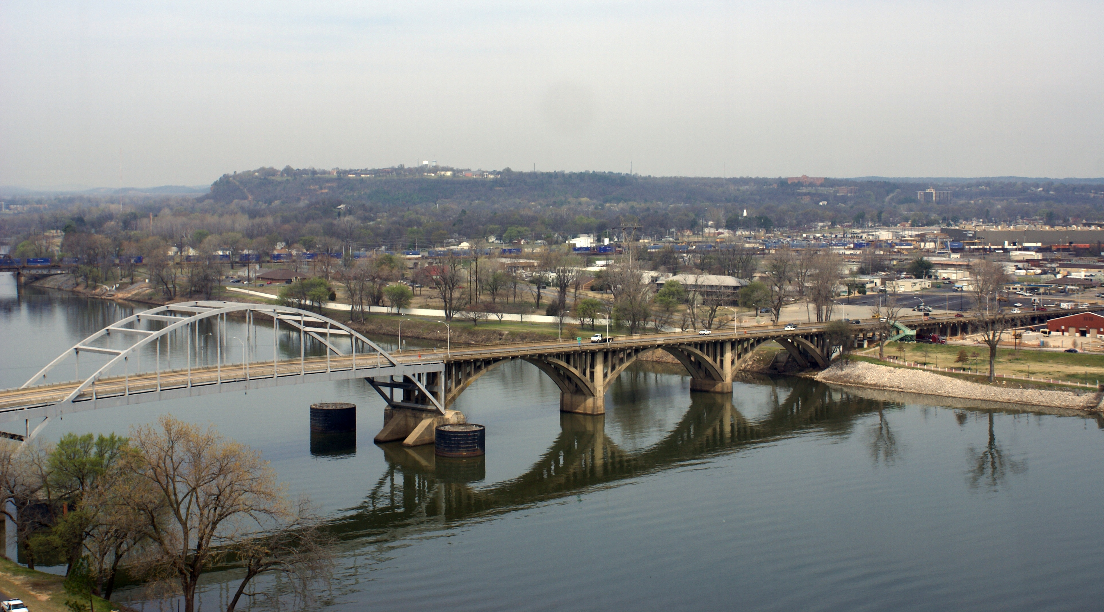 Arkansas River, Looking Across To North Little Rock; Taken from the 18th floor of the Peabody Hotel in Little Rock, through a window, of course.